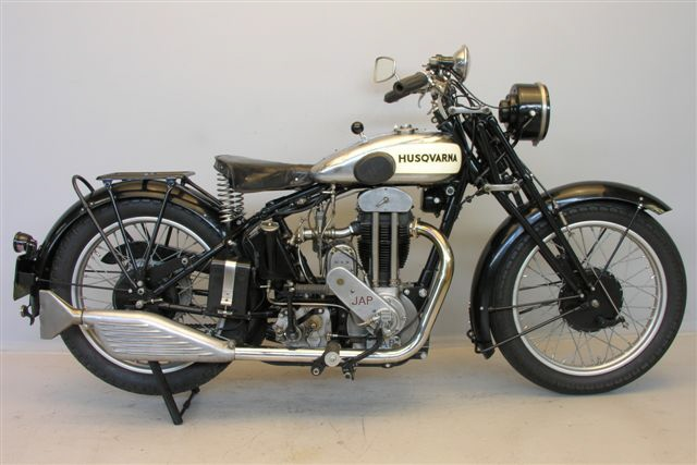 Husqvarna JAP motorcycle 1931